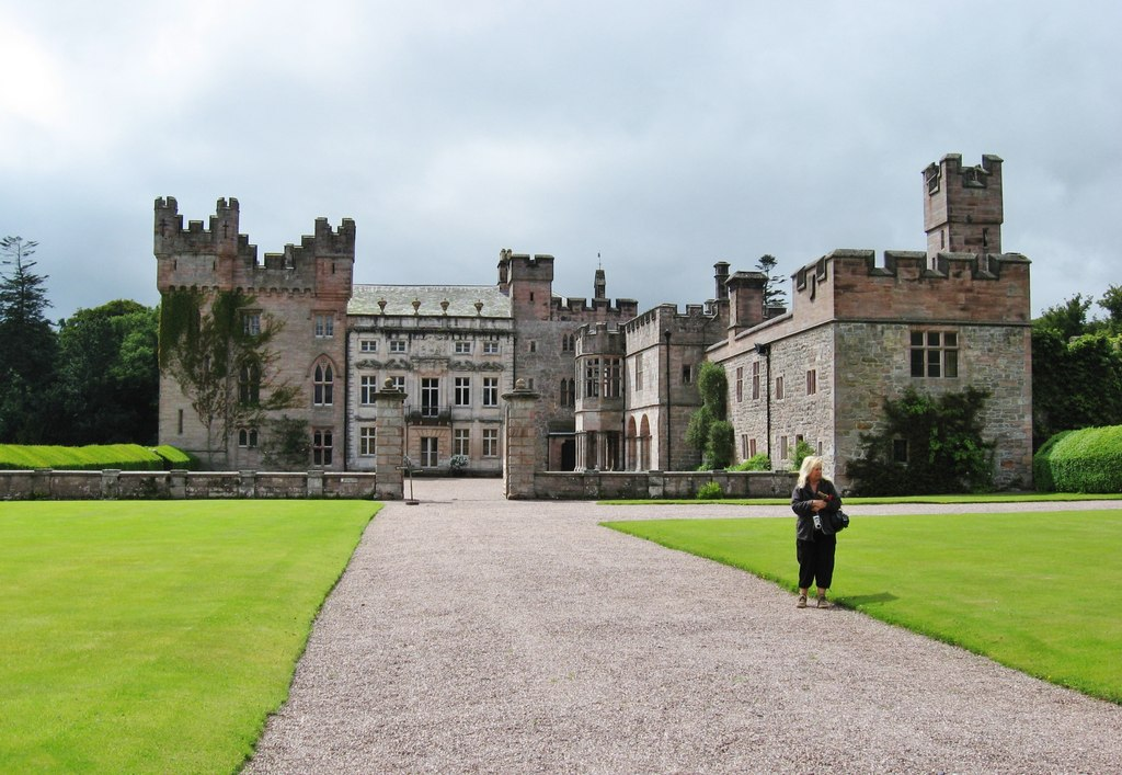 Hutton in the Forest House